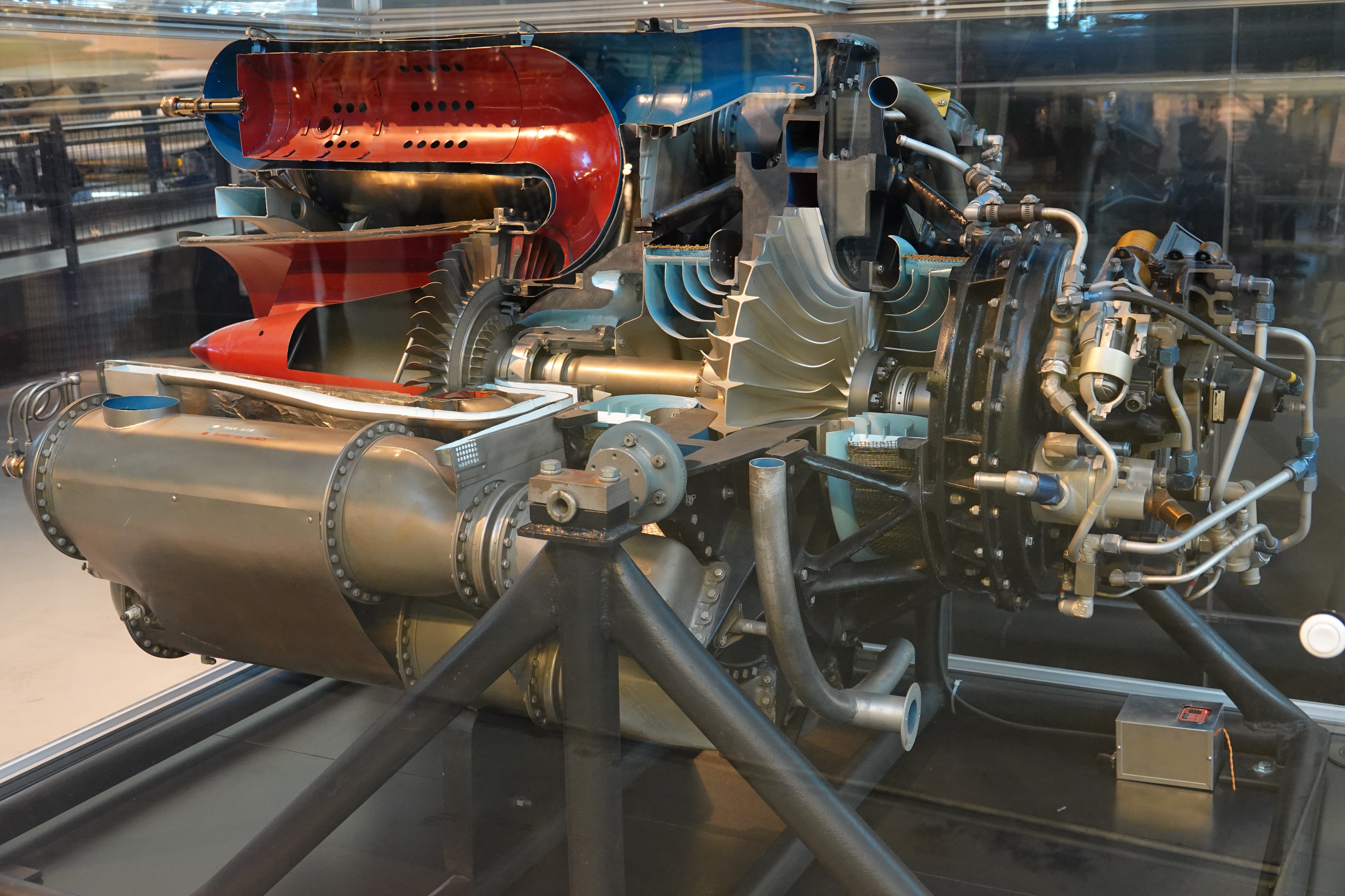 Early flight tests of the ﬁrst General Electric turbojet engine, the Type I-A, clearly showed the need for more powerful engines. GE followed with designs generating increased thrust, including the I-16, designated J31 by the military, which first ran in April 1943. About 250 were built, mainly for variants of the Bell P-59 Airacomet. GE developed this engine for the US. Navy as a 100-octane, gasoline-burning version of the standard J 31 engine, which normally ran on kerosene fuel. Development began in 1943, when the government believed that future tactical needs would require turbojet engines to use the same fuel as reciprocating engines. Before it was made into a cutaway, this engine, along with a Wright R-1820 piston engine, powered the Ryan FR-l, the Navy’s first partially jet-powered aircraft. Picture taken at the National Air and Space Museum's Steven F. Udvar-Hazy Center in Chantilly, Virginia, USA. Air enters the engine through the series of guide vanes just right of center, painted light blue. The compressor was double-sided, taking in air from inlets on either side. From there the air is compressed and collected in a series of outlets, visible here as the small trapezoidal pipe just above the compressor disk (somewhat darker blue). These pipes bent through 90 degrees and fed the air into the long pipes leading to the rear of the engine (blue). A series of holes allowed the compressed air to flow into the burners (red) towards the front of the engine. After combustion, the flow reversed direction again to flow over the single-stage turbine, located just left of center in the image, and then out through the jet pipe. Type: turbojet Thrust/speed: 7,161 N (1,610 lb) at 16,500 rpm Compressor: single-stage centrifugal flow Combustor: 10 reverse-flow combustion chambers Turbine: single-stage axial flow Manufacturer: General Electric Aircraft Engines, Lynn, Massachusetts, USA